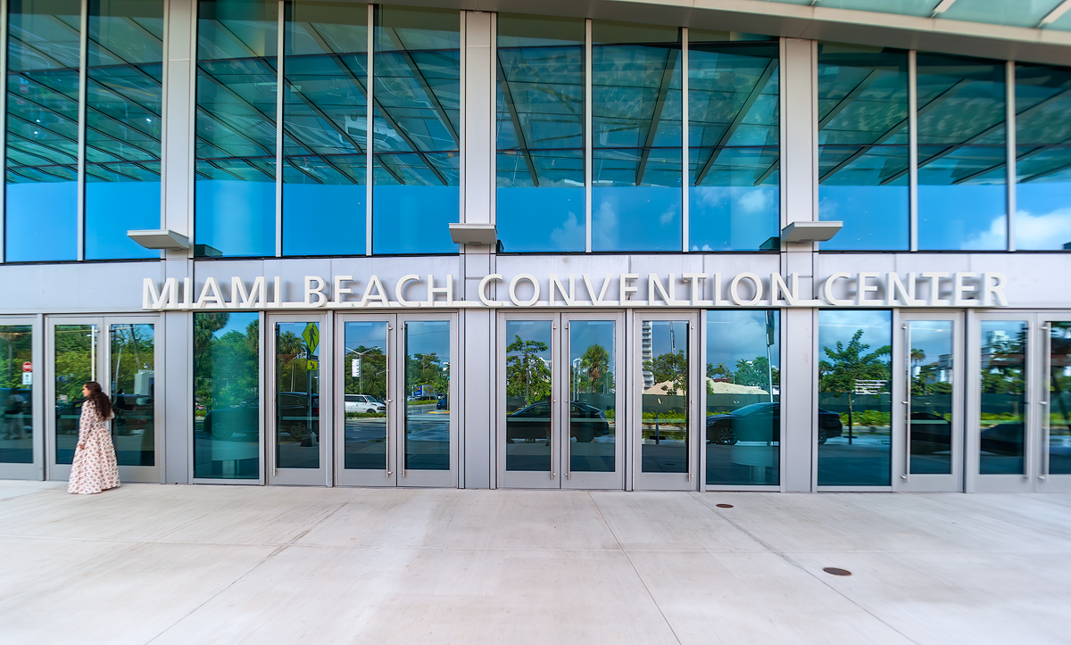 Miami Beach Convention Center - main entrance on Convention Center Dr.